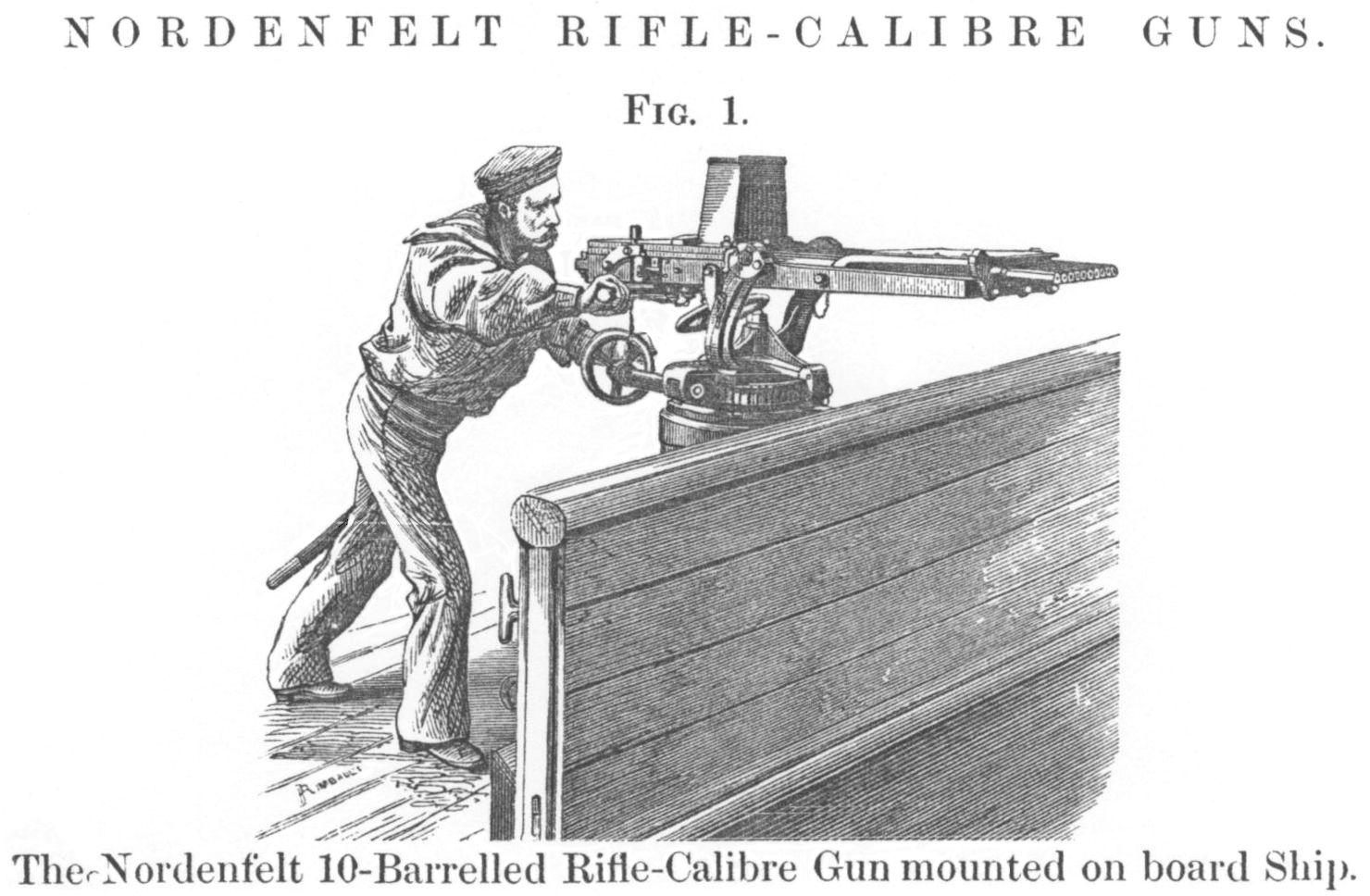 Drawing of 10-barrel Nordenfelt rifle-calibre machine gun in naval action.